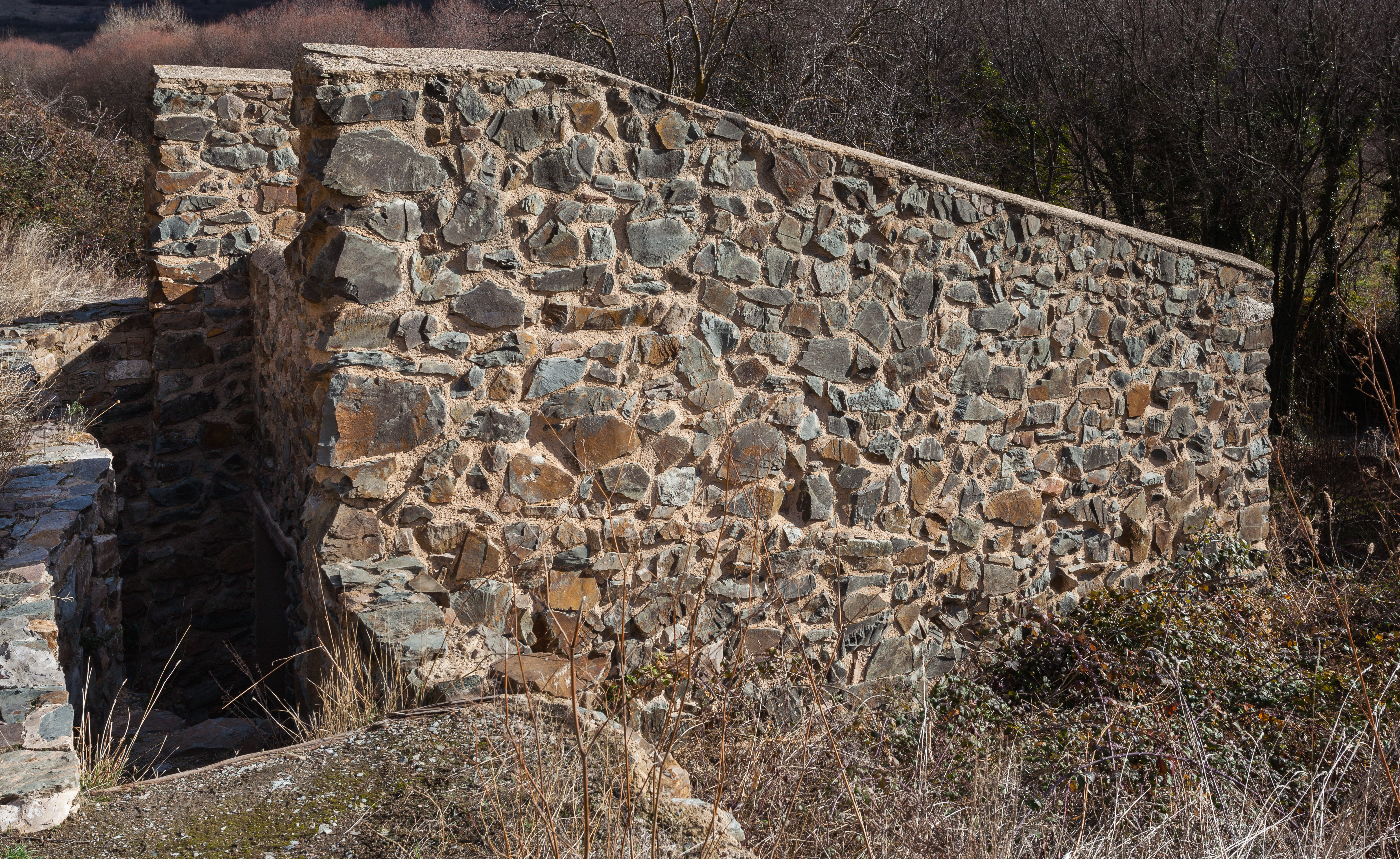 Gun powder mill, Villafeliche, Zaragoza, Spain